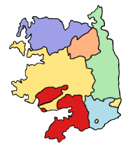 Catholic Province of Tuam. This is a current map of the ecclesiastical province in the Catholic Church. The crosses mark where the current Cathedrals of each diocese is located. The specific dioceses are in different colours.